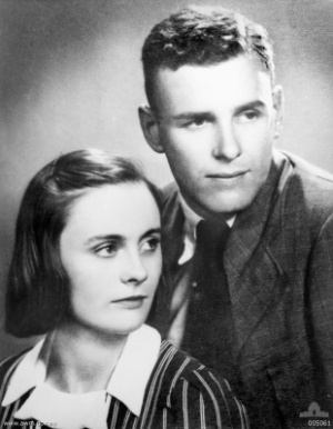 Lieutenant W. H. Travers NX57 and Mrs Jean Margaret Travers (born 1919), son-in-law and daughter of (then) Major General Iven Giffard Mackay